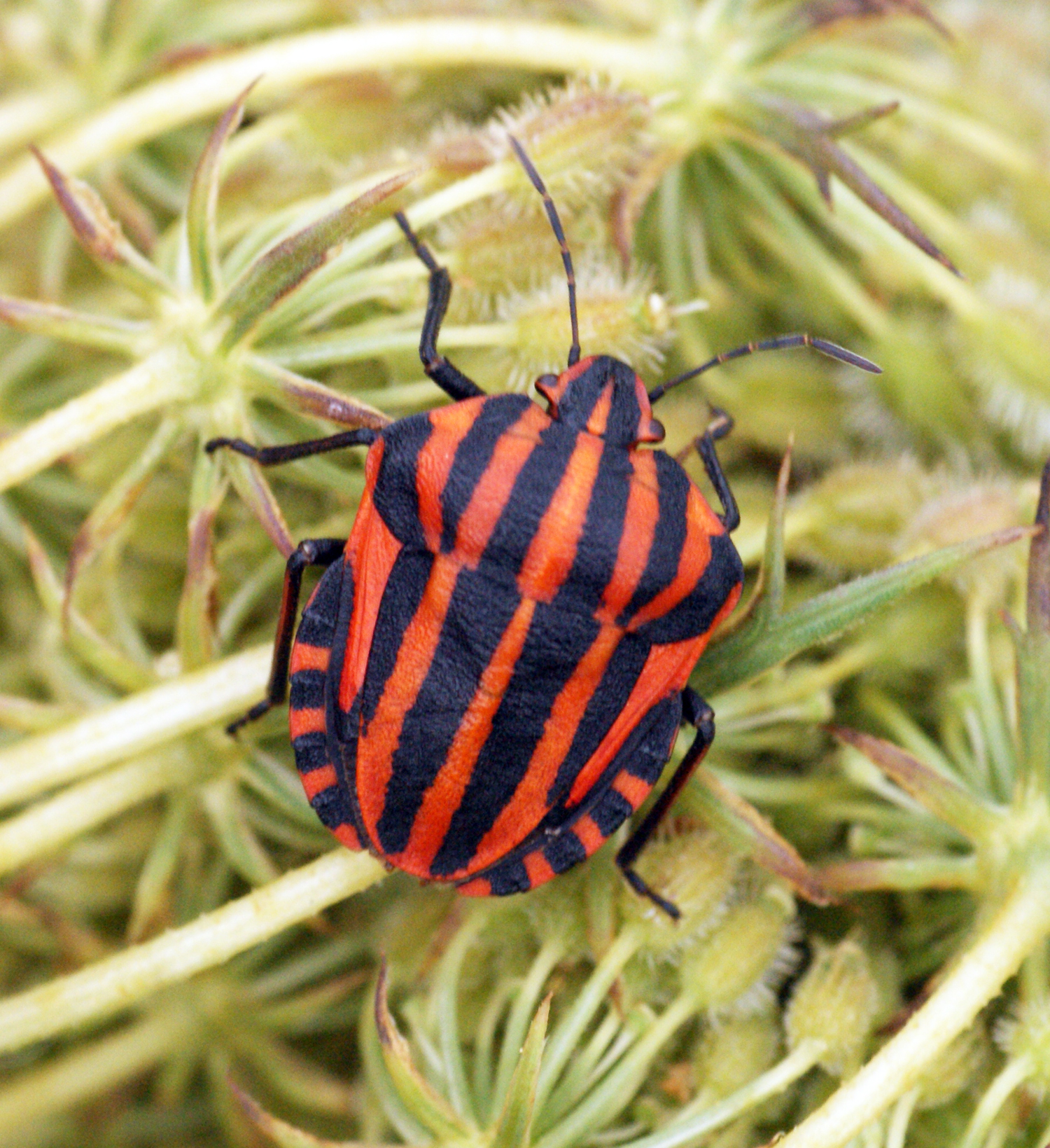 Back from Croatia with the moth that has no name... Hi everyone. I have recently got back from our honeymoon to Croatia. We both had a lovely time, the weather was a bit up and down unfortunately but we had some nice and sunny days with highs around 30 degrees. Me being me decided to do a bit of exploring around the local area. I had numerous walks up the road towards scrubby land and mixed woodland where I observed plenty of Butterflies, Crickts, Grasshoppers, Mantids and of course Moths! I also decided to do a couple of walks to the favoured areas with a fishing net (which I bought out there as I forgot to pack my net!) a torch and a few pots. I should have taken more pots....and 8 just wasn't enough. Of the 20 or so species of moth I saw out there, the most interesting was this Strathmopoda species (Which I assume it is). Bearing in mind there is only one known Strathmopoda species in Europe (pedella) this got me rather excited to say the least. From what I have been told, there is a new species of Strathmopoda being described at present, and this species could link with that? I have also been told that it will need dissecting to rule out a possible aberrant Strathmopoda pedella. See what you think, but it doesn't seem to resemble 'pedella' going on the markings.